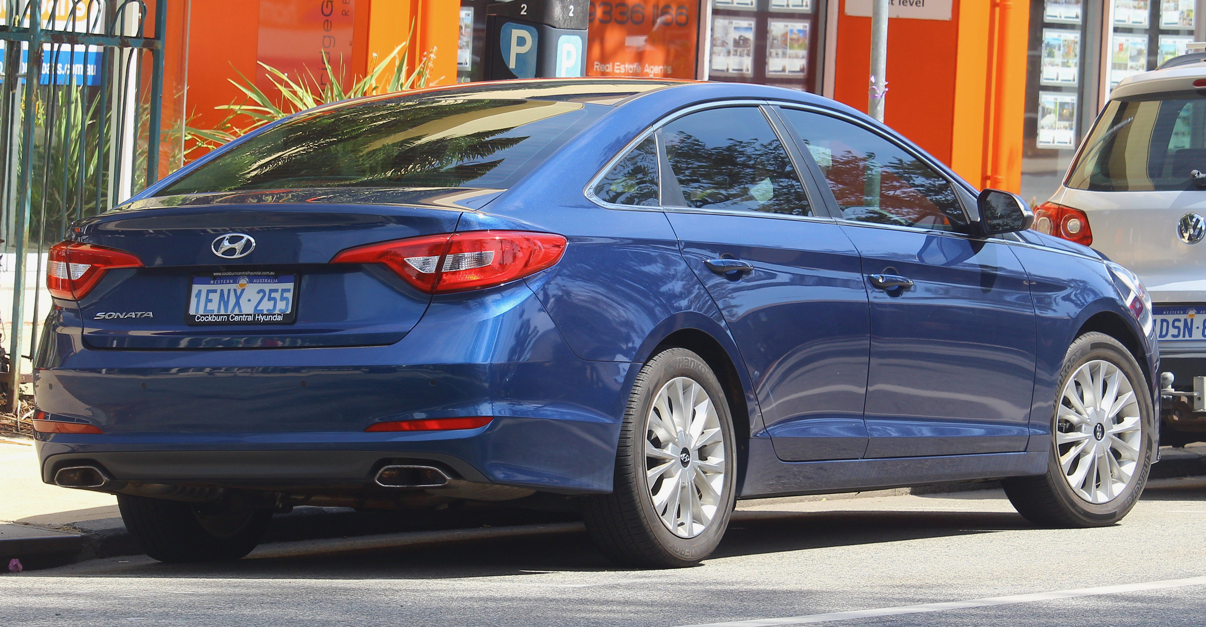 2014 Hyundai Sonata (LF MY14) Active sedan. Photographed in Fremantle, Western Australia, Australia.